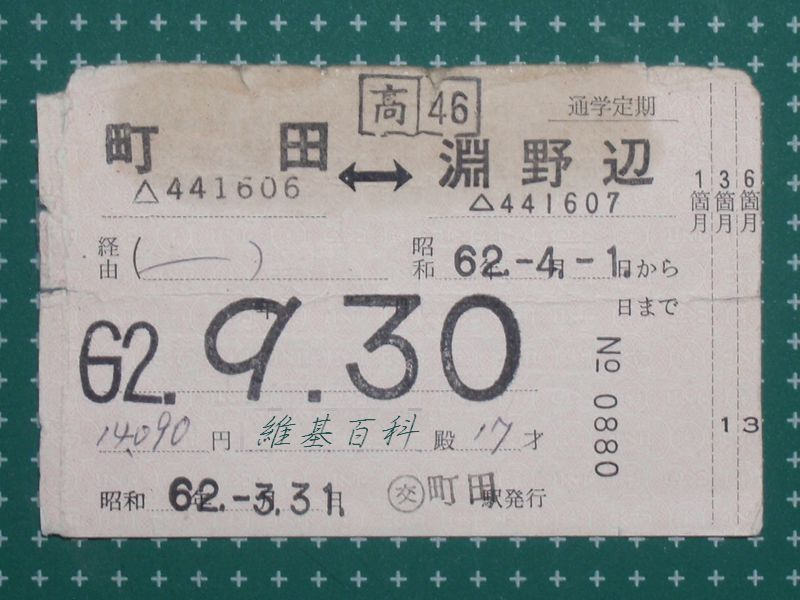 JNR Monthly ticket